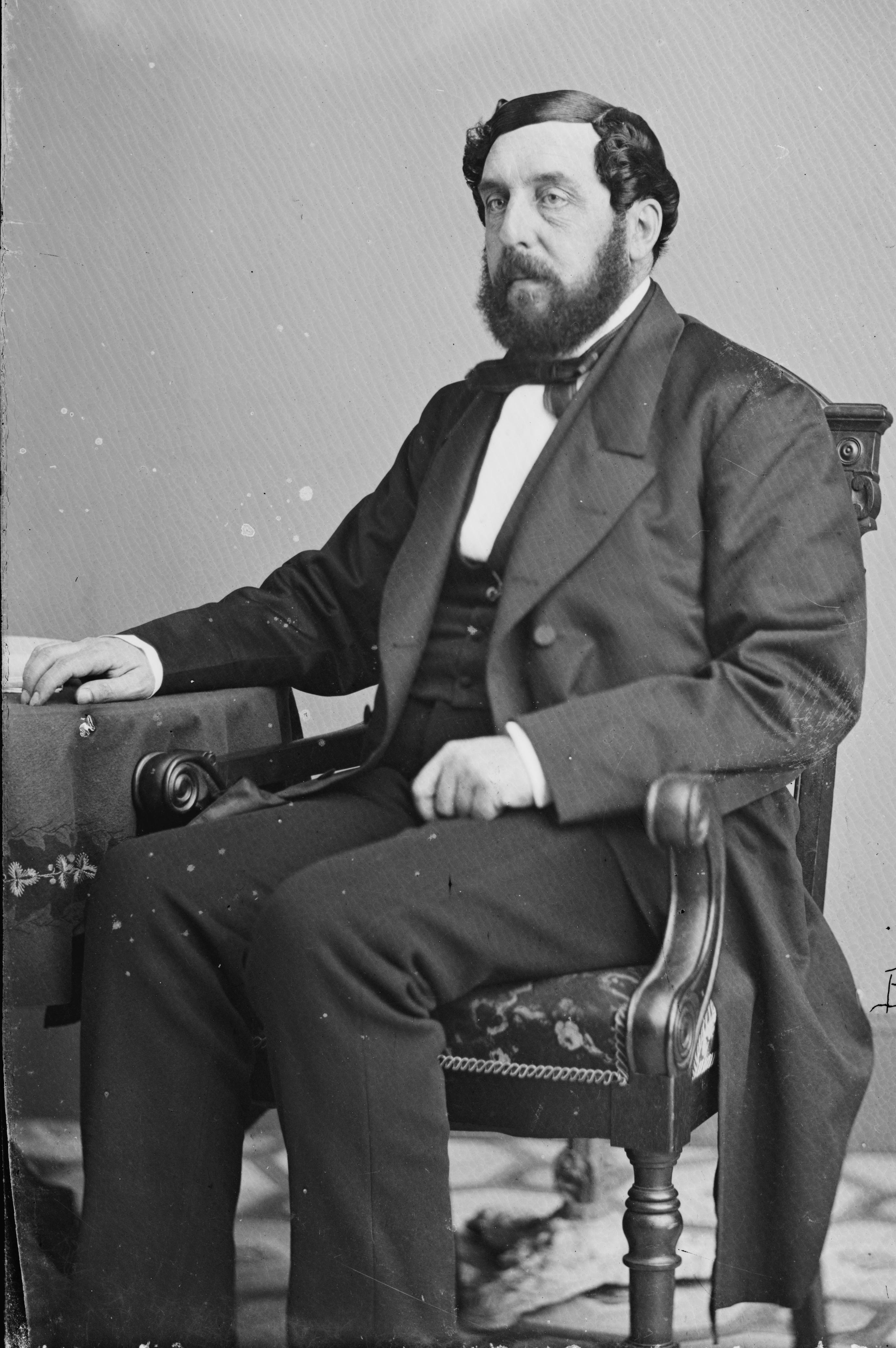 Henry Theodore Tuckerman. Library of Congress description: "Henry T. Tuckerman"